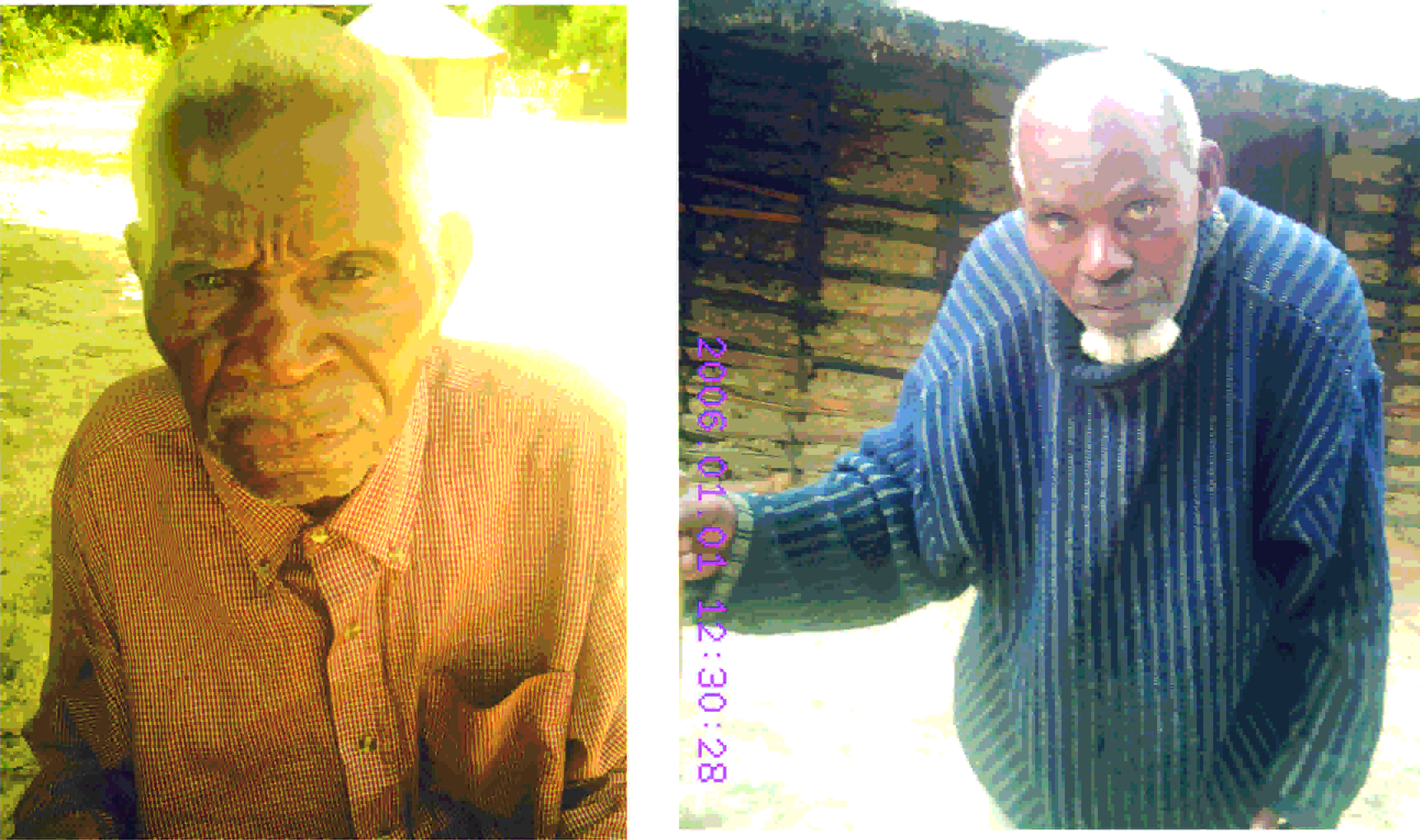 Mbunda Bible Translations Members, in Kaoma, Western Province of Zambia.